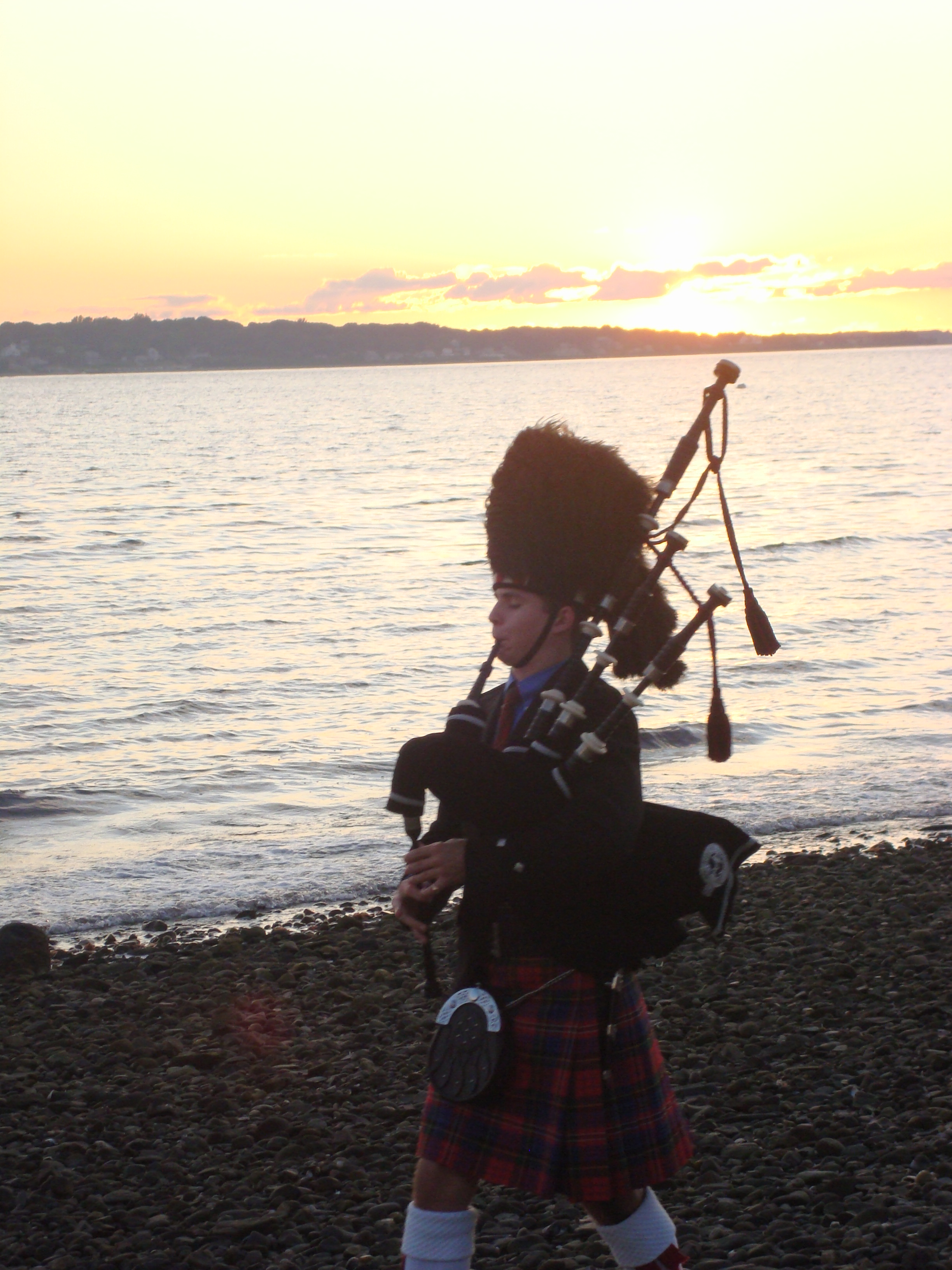 Location: Rhode Island, Newport.